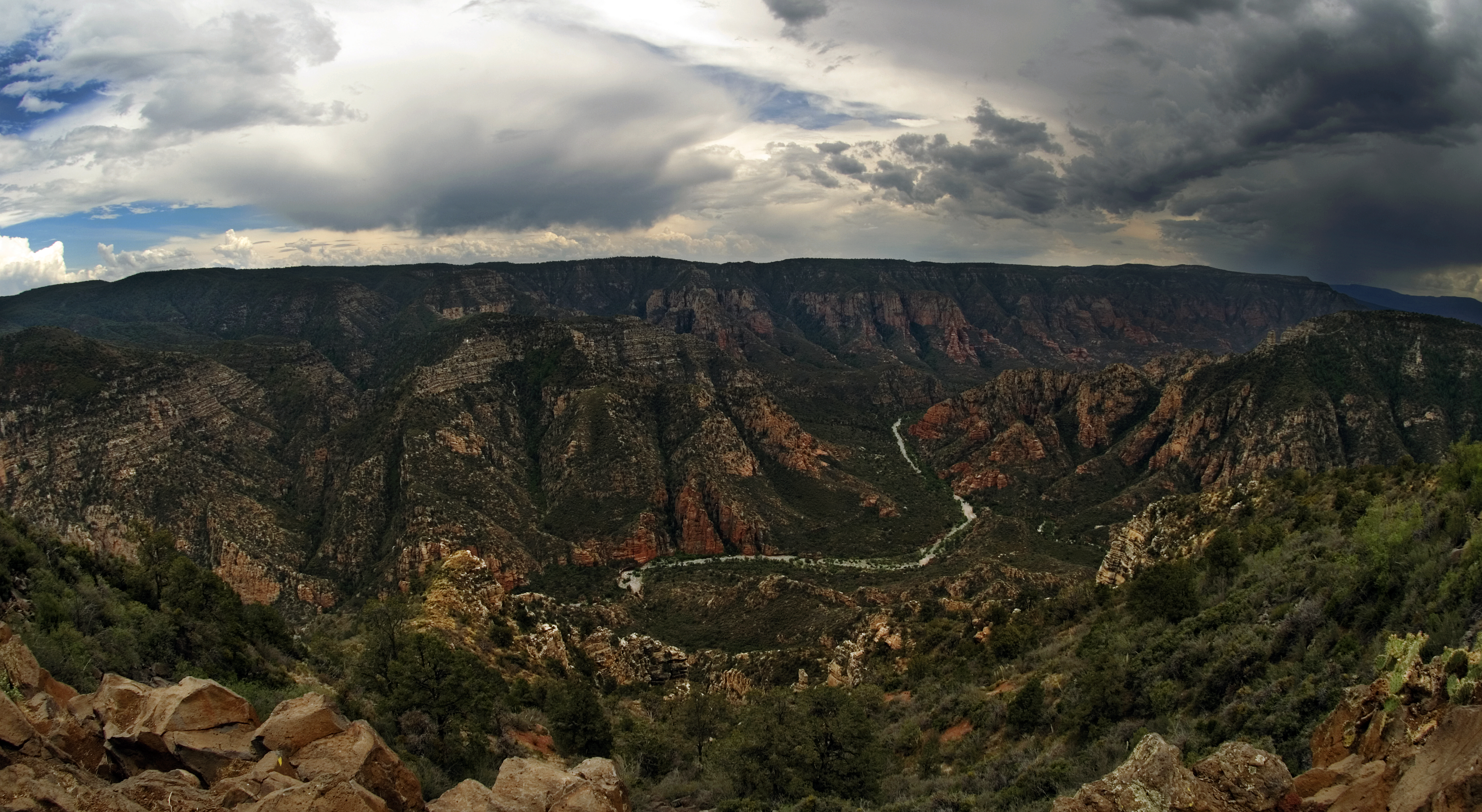 Sycamore Point on the Williams Ranger District. Please give credit to: U.S. Forest Service, Southwestern Region, Kaibab National Forest.